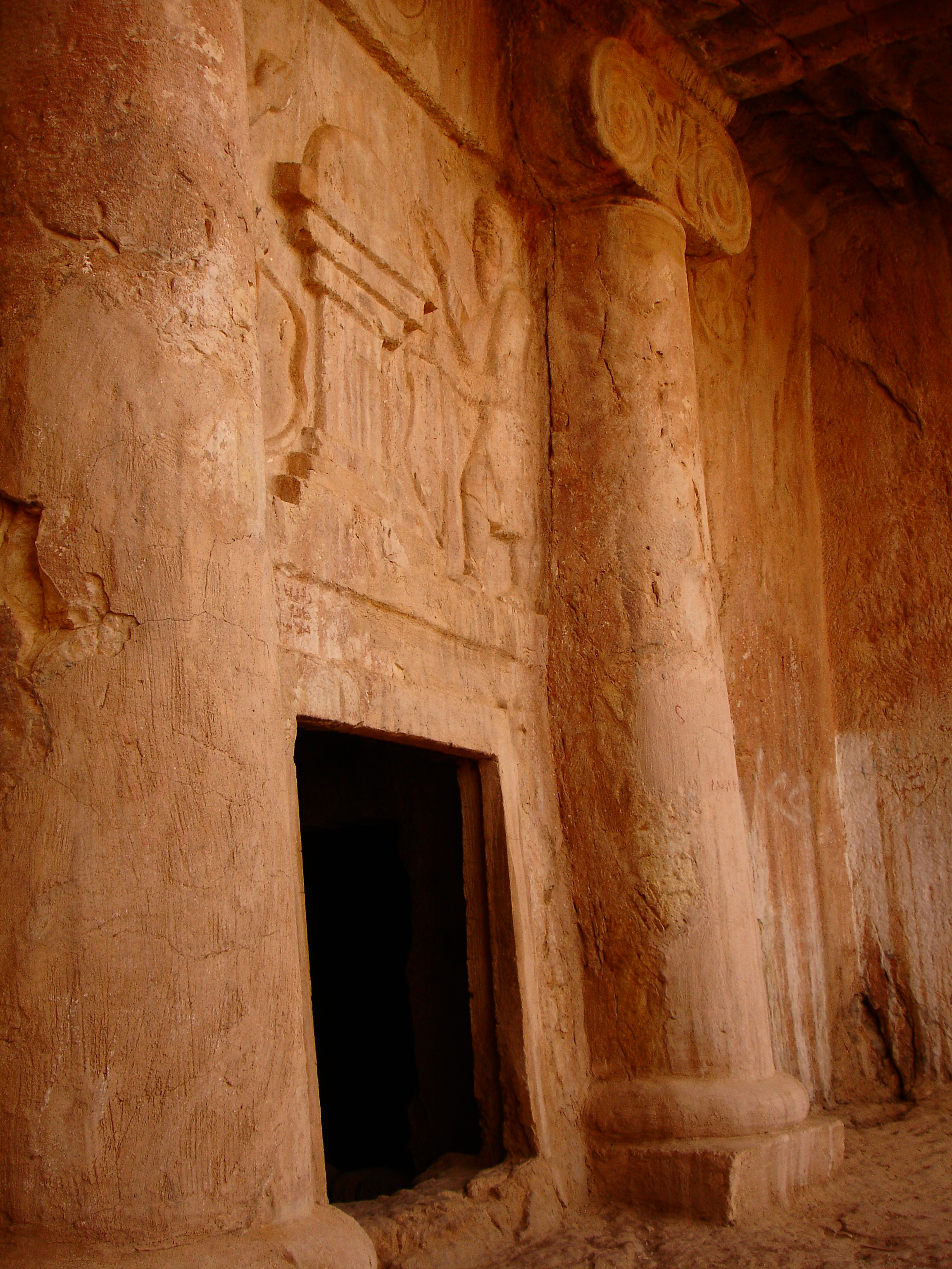 A old tomb of the Zoroastrianism religion in the Sulaymaniyah province. The inside has been robbed and is empty. See metadeta for more info. This Picture was taken in Kurdistan.